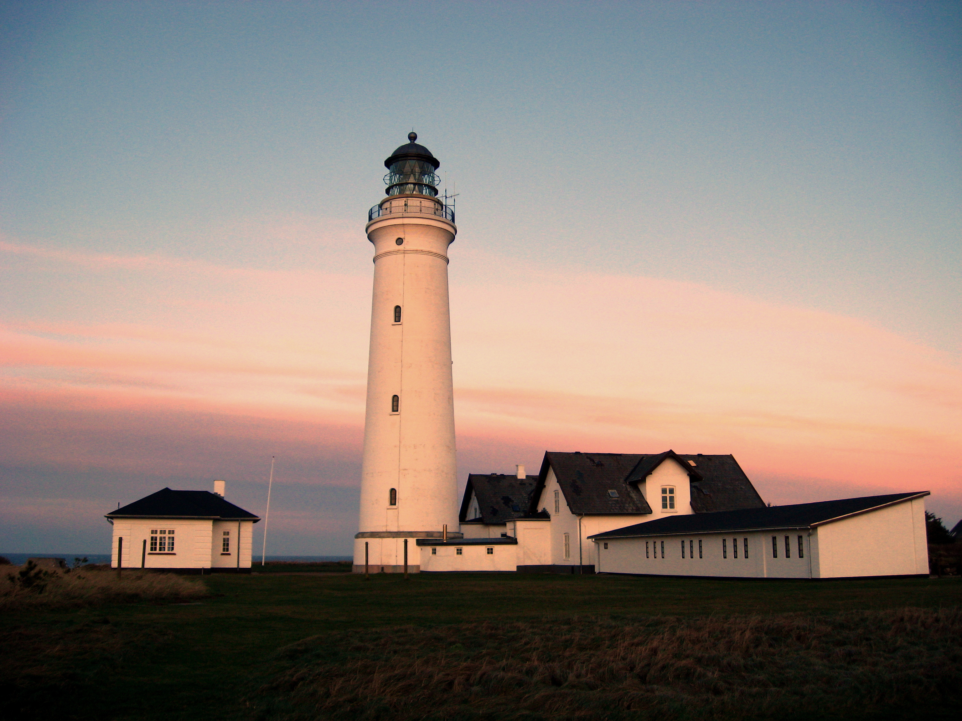 the lighthouse in Hirtshals, Denmark